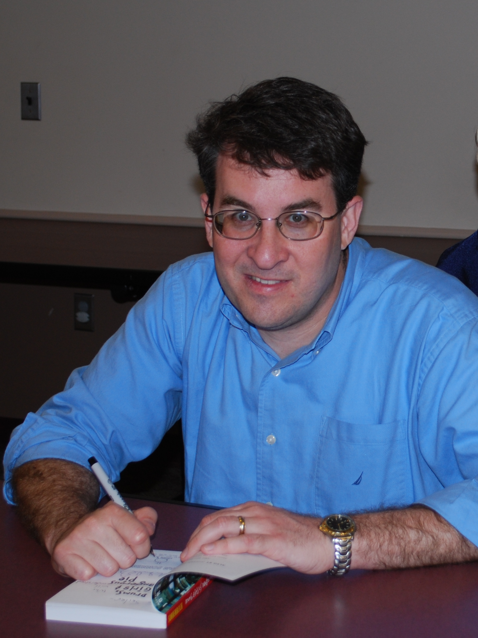 Jordan Sonnenblick doing a book-signing at the Eldersburg Library in Eldersburg, MD.